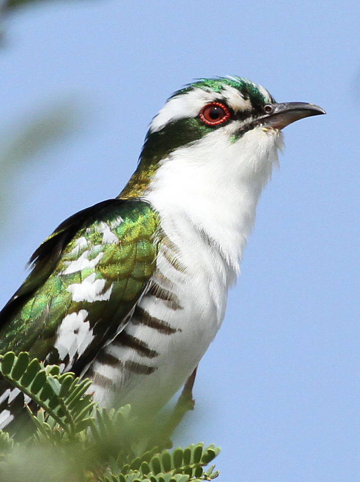 Diederik cuckoo, Chrysococcyx caprius, at Pilanesberg National Park, South Africa